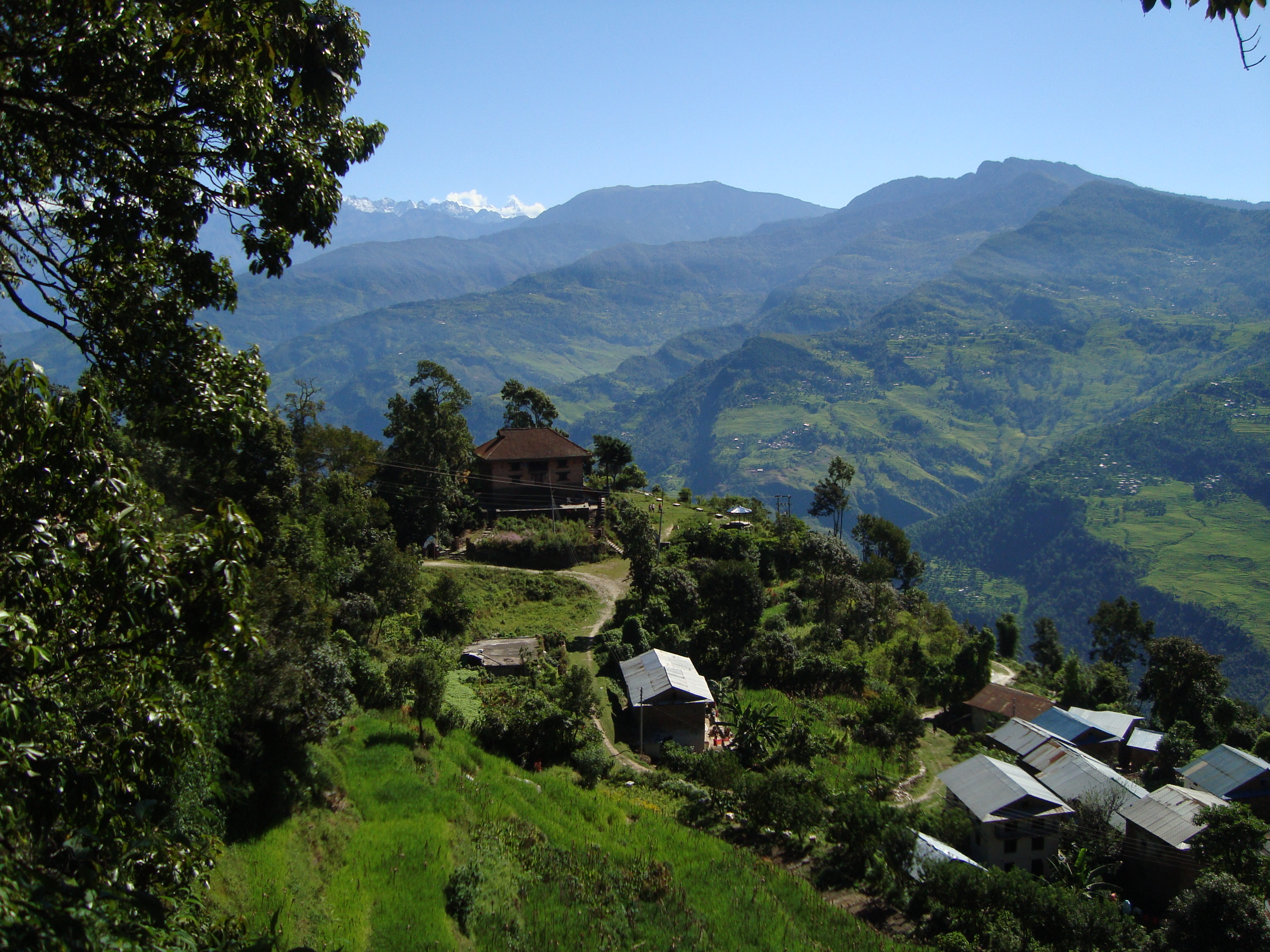 Temple-Devikot or Tripurasundari